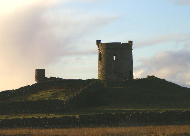 Brough Lodge folly, Fetlar Built during the Victorian era, and on top of an iron age fort (!).